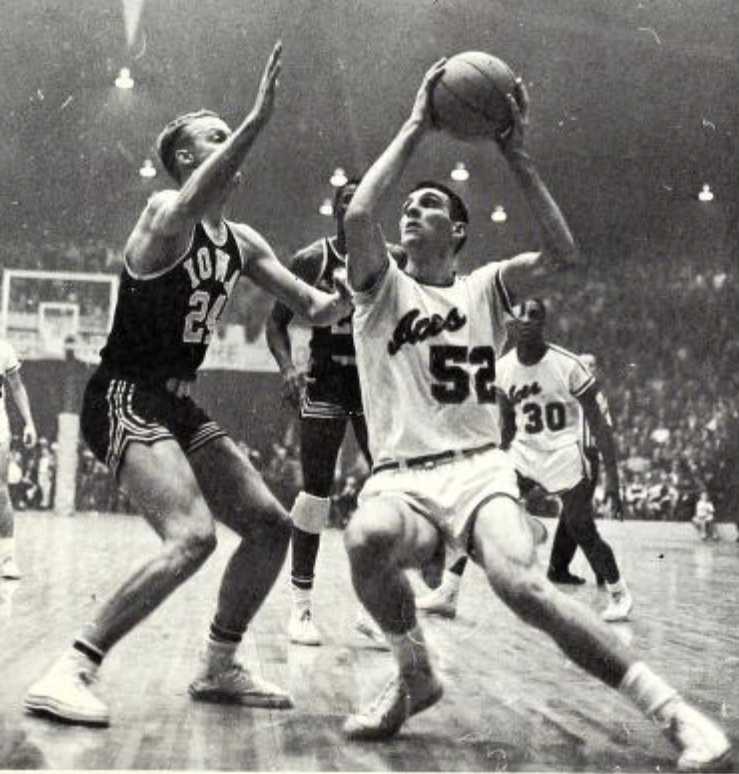 American college basketball player Jerry Sloan Of the University of Evansville in 1965.